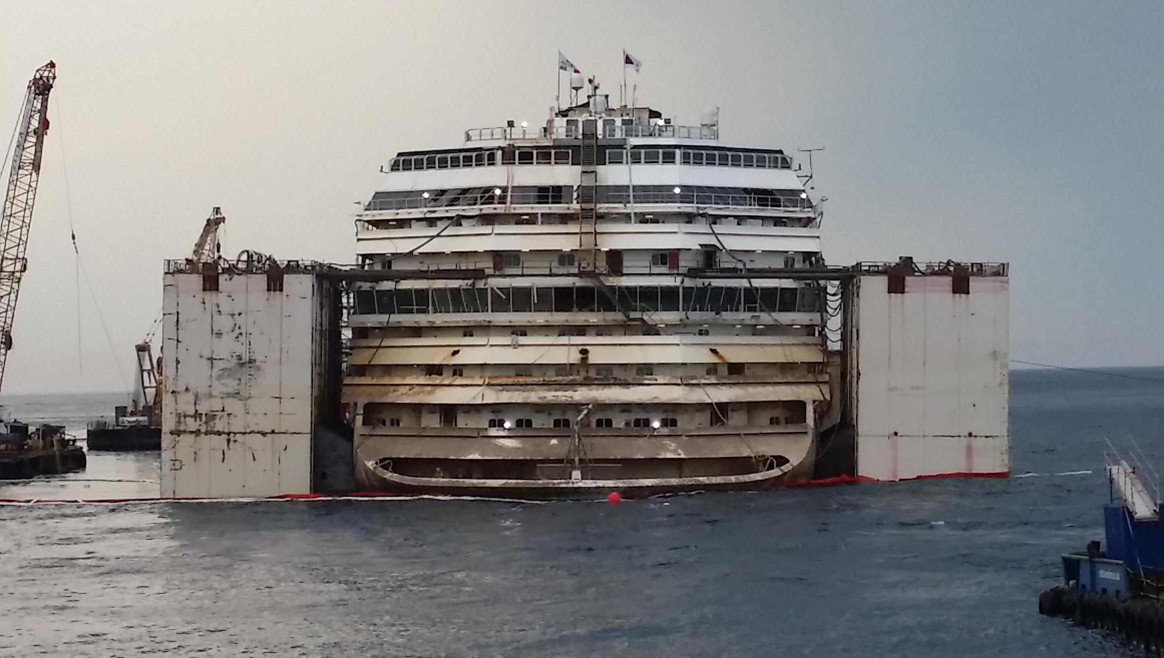 Costa concordia partially refloated